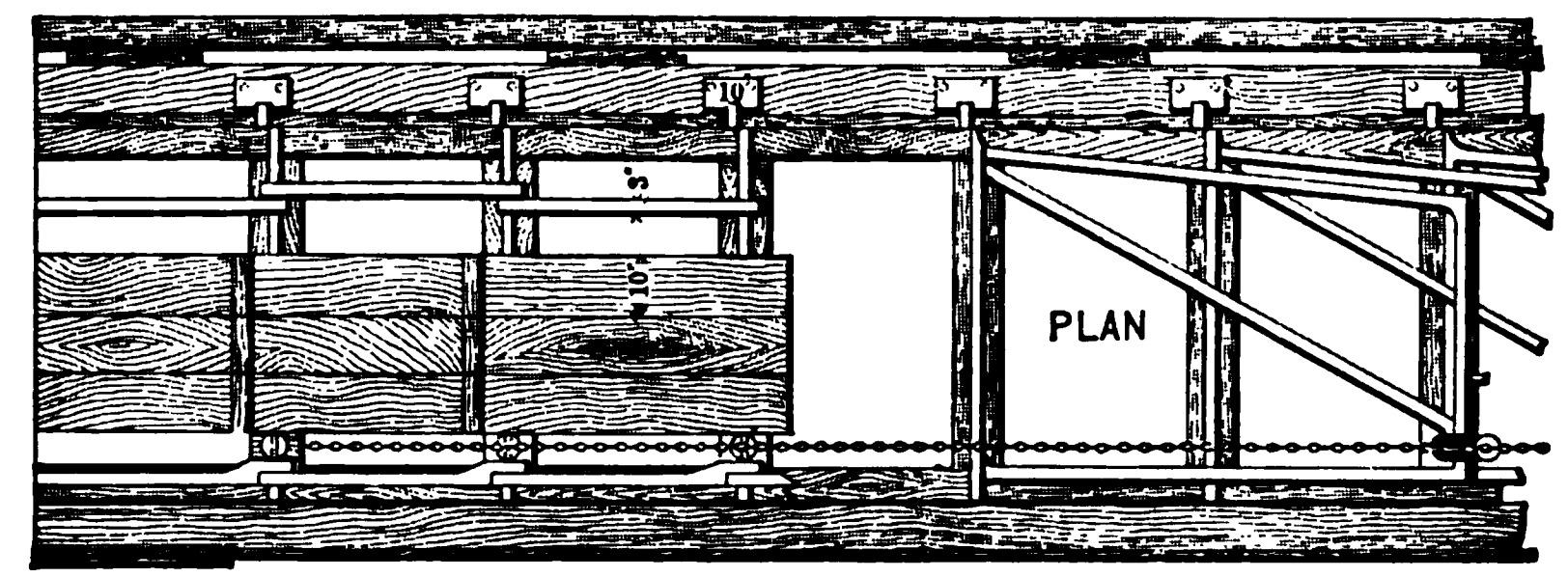 Needle dam - top view